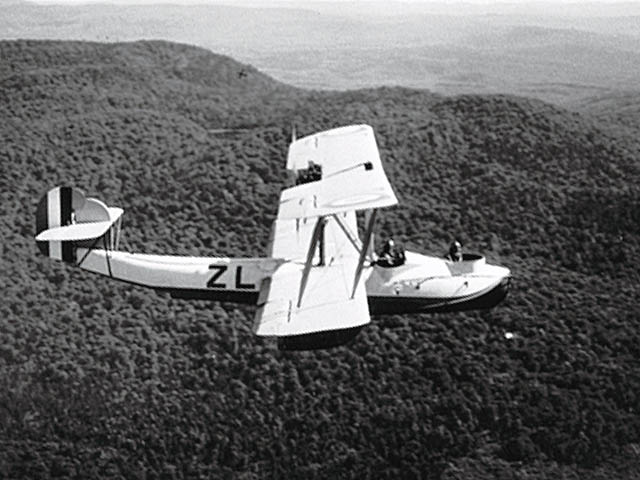 Canadian Vickers Vedette